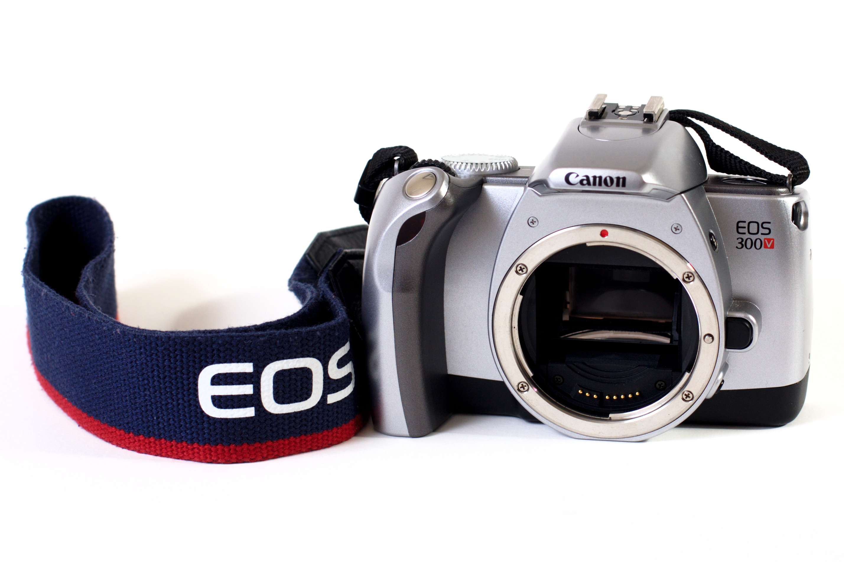 Canon EOS 300V SLR camera without a lens.